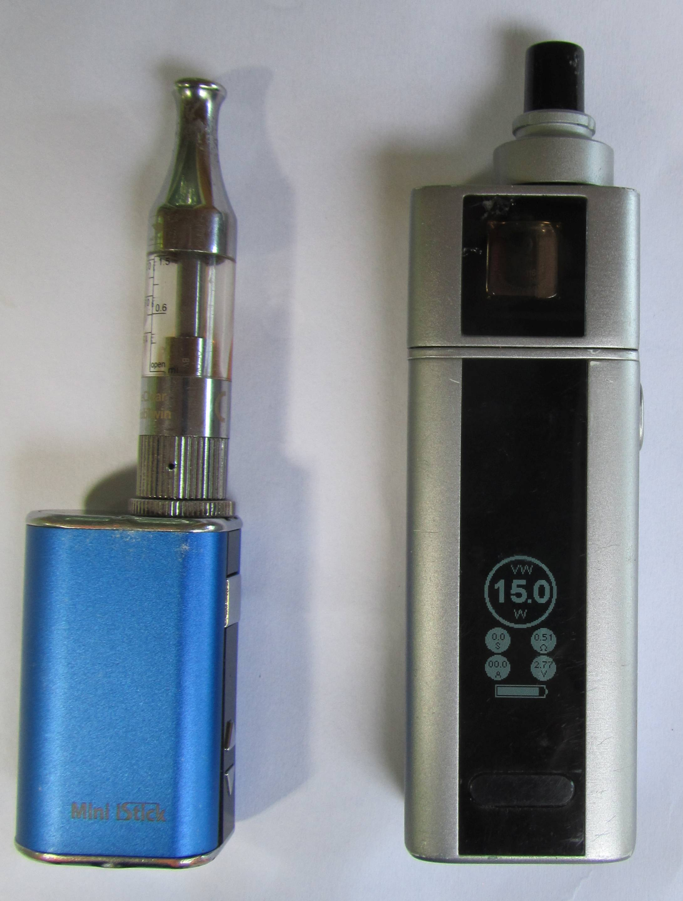 Two types of modern (2016) e-cigarettes.